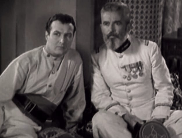 Lester Vail (left) and Paul McAllister in Beau Ideal (1931) - cropped screenshot